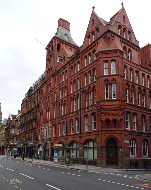 Prudential Assurance Building, Liverpool, England, UK